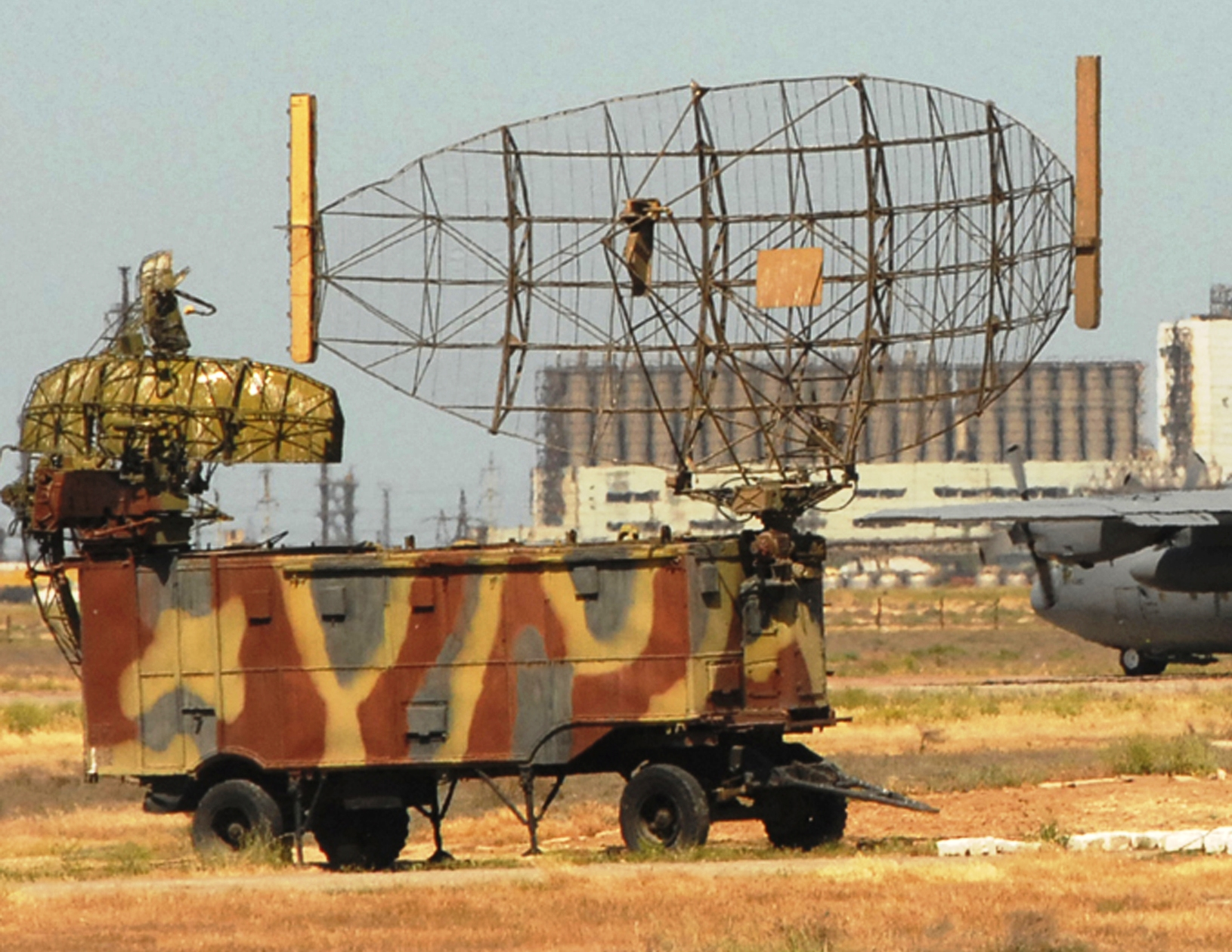 An Azeri military radar RSP-6M in Azerbaijan.